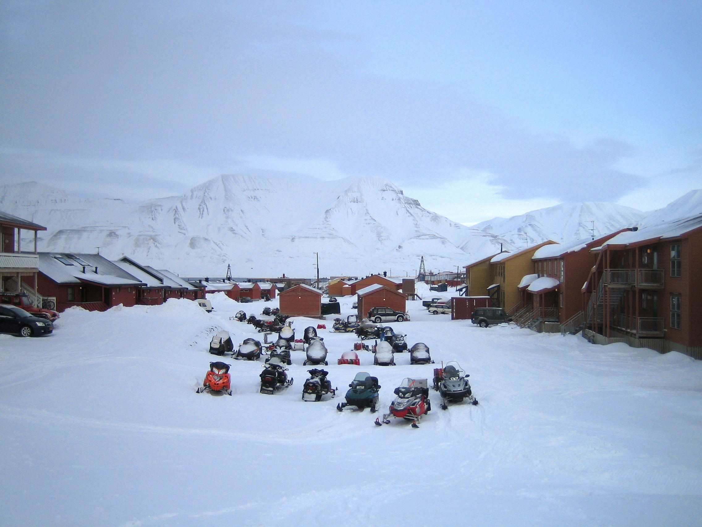 A parking lot with snow scooters in Longyearbyen